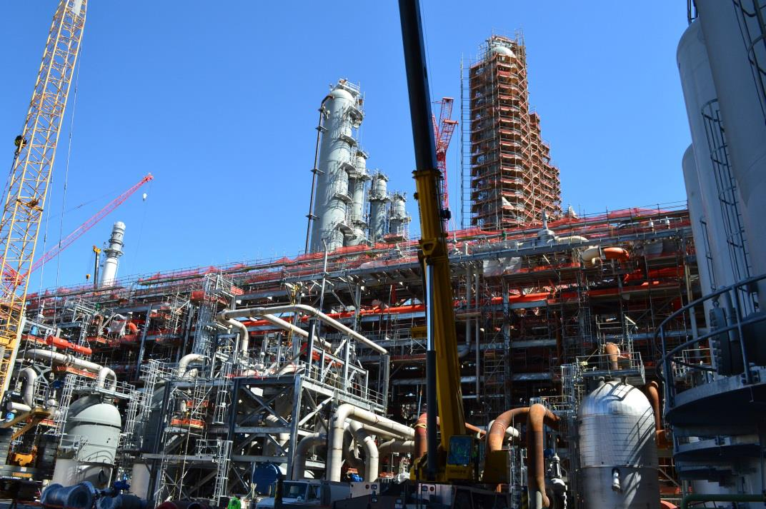 Kemper Project, Kemper County, Mississippi.